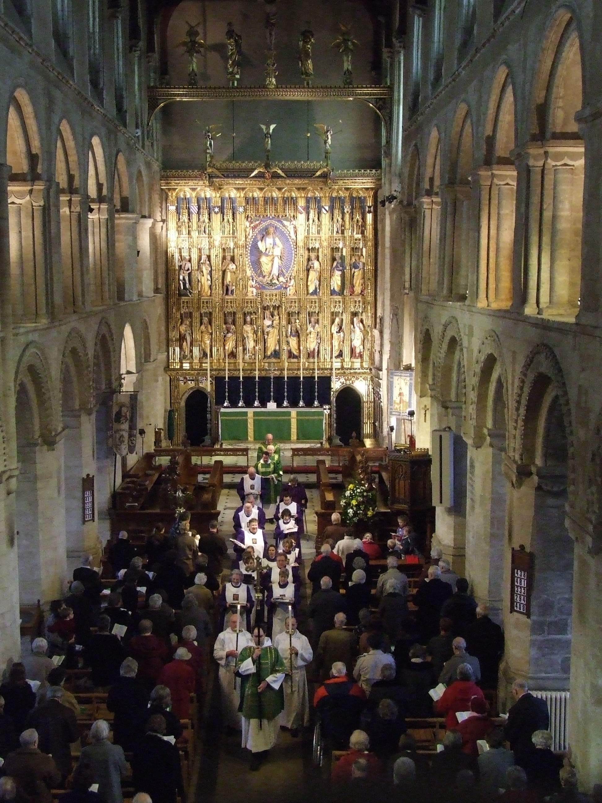 Wymondham Abbey nave. Photo: Richard Barton-Wood.